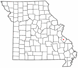 Modified from a map on Wikipedia.